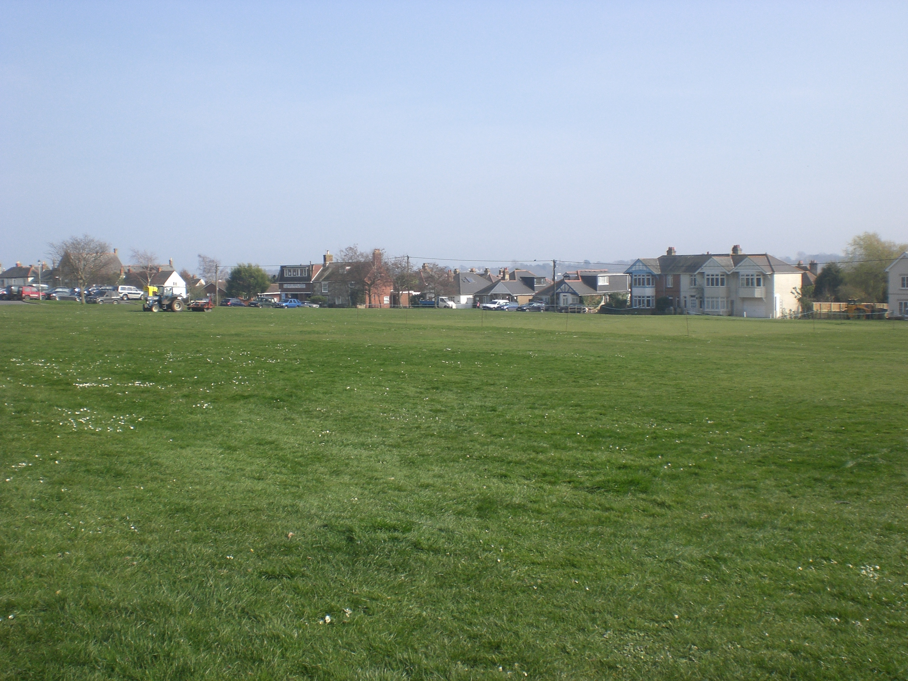 Part of St Helens village green on the Isle of Wight.